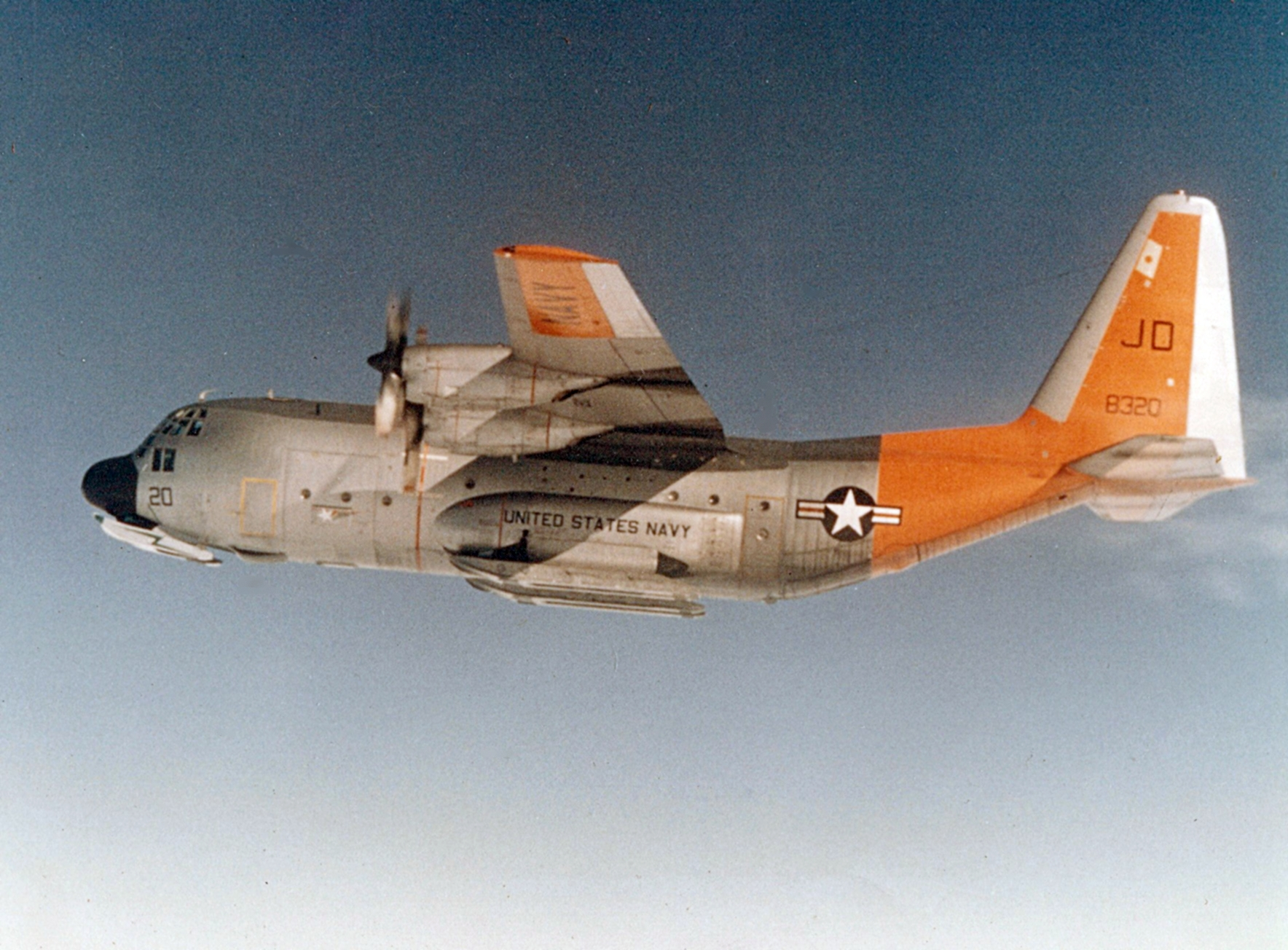 A U.S. Navy Lockheed LC-130F Hercules (BuNo 148320) from Antarctic Development Squadron VXE-6 The Puckered Penguins underway from McMurdo Station, Antarctica, to Beardmore Glacier to map glacier ice. This aircraft was transferred to the U.S. National Science Foundation in October 1979 and retired to the AMARC as CF0191 on 6 March 1999.